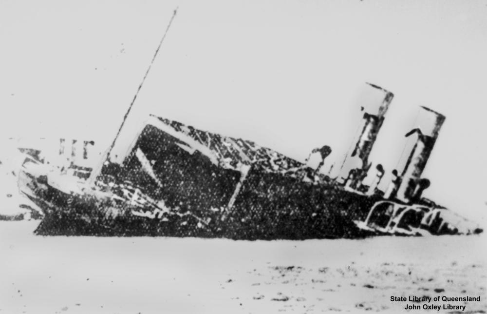 HMS Ben-my-Chree (ship) half-submerged and sinking.